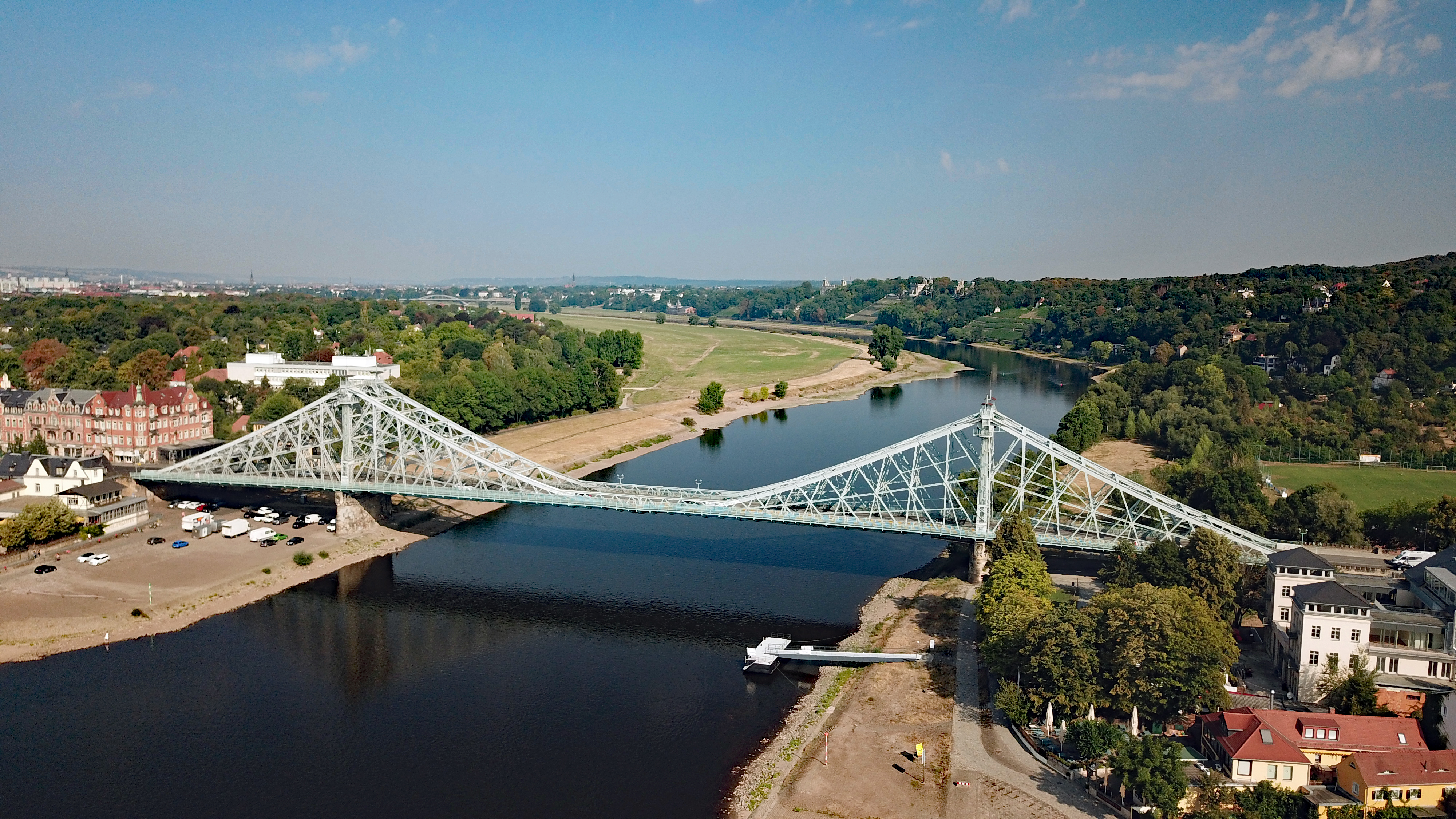 Blaeues Wunder (Dresden, Saxony, Germany)